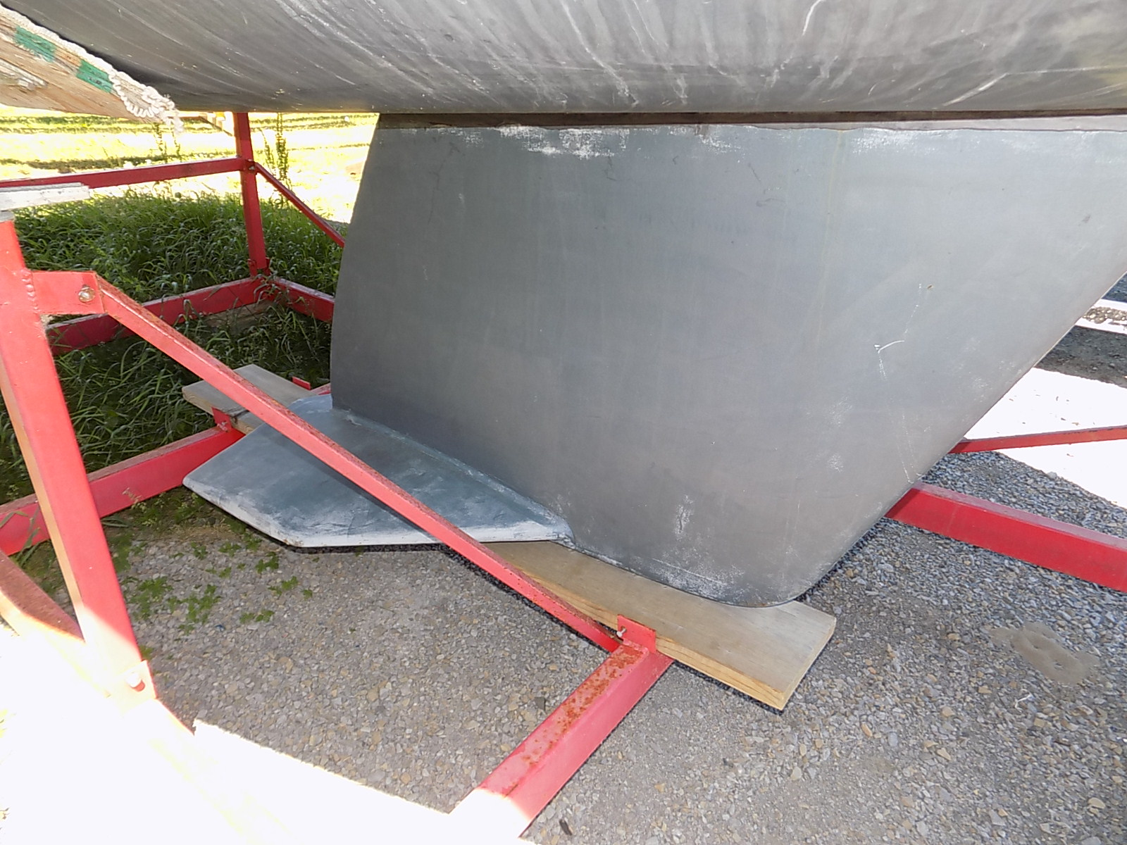 A wing keel on a Beneteau First 285 sailboat named Lady K.